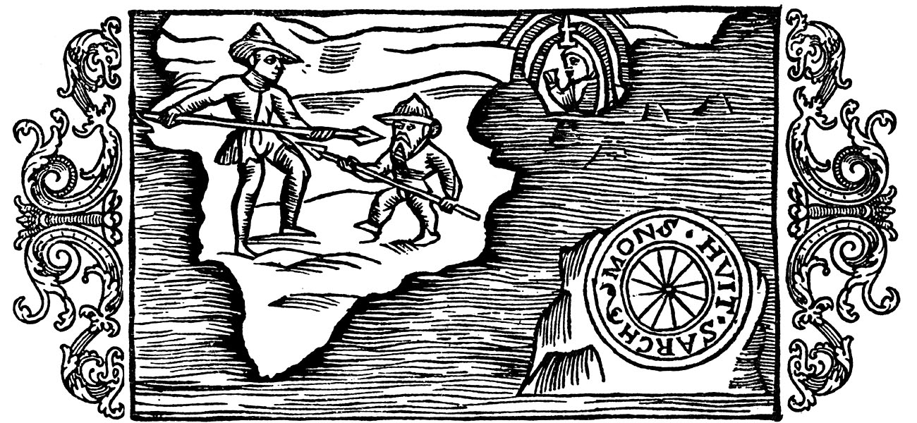 On south Greenland we see a dwarf fight with a normal man. At top a whale bone house. To the right the rock Hvitsark which according to Olaus Magnus lies in the Denmark sound between Greenland and Iceland. On this rock a compass rose is carved in the stone with lines and circles filled with lead.